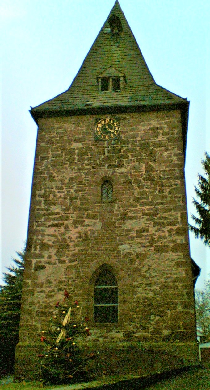 tower and Christmas tree (district Holzminden, Germany)